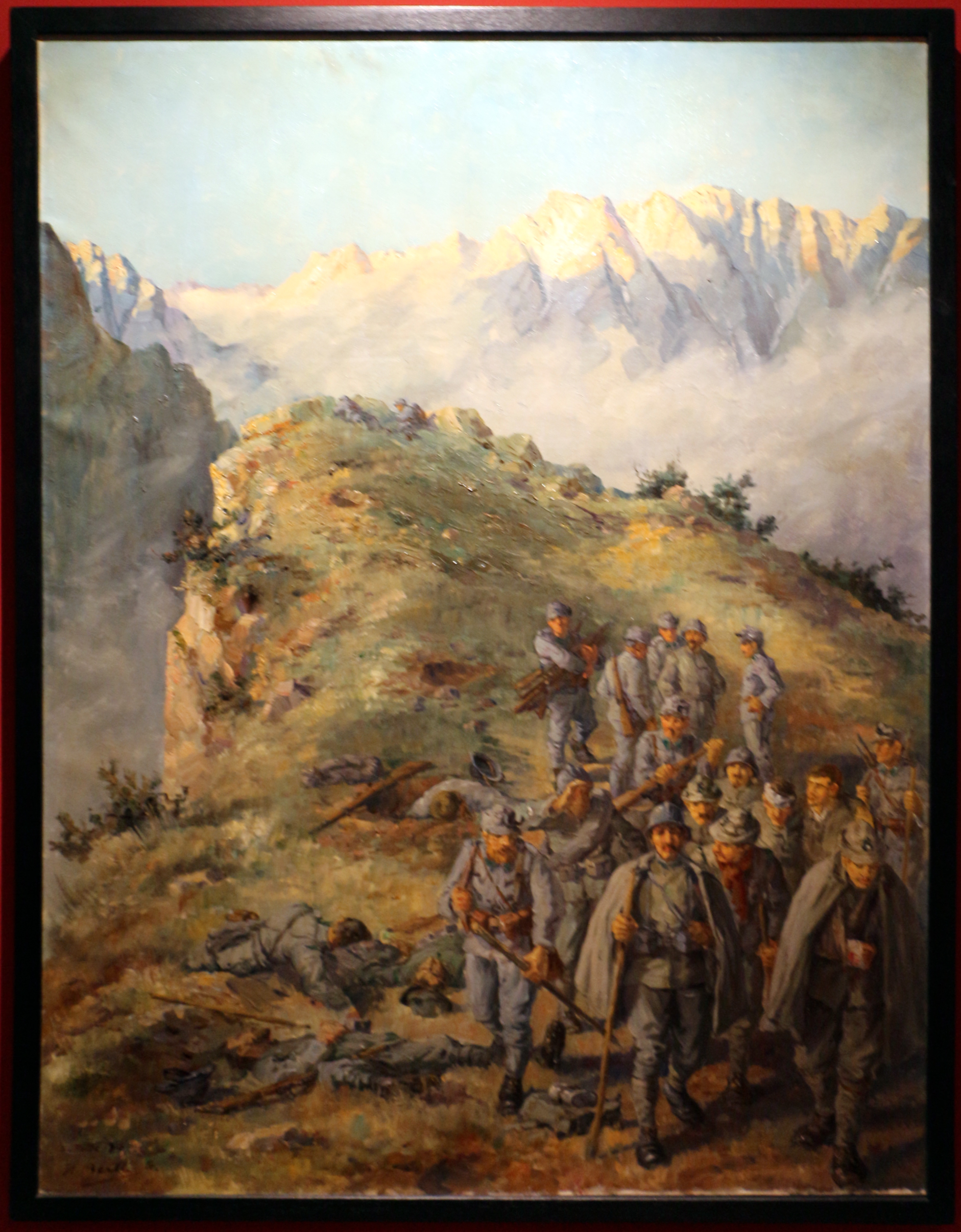 Exhibition at Buonconsiglio Castle